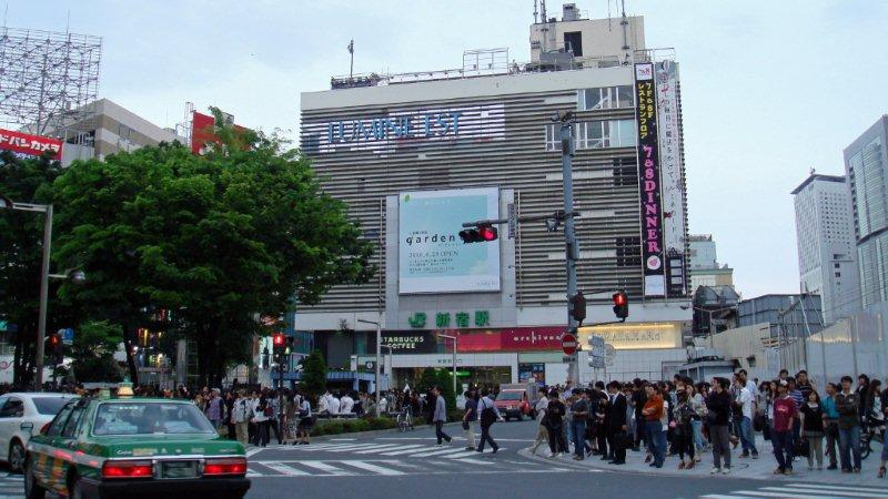 East exit of Japan Railways Shinjuku station at TOKYO in holiday